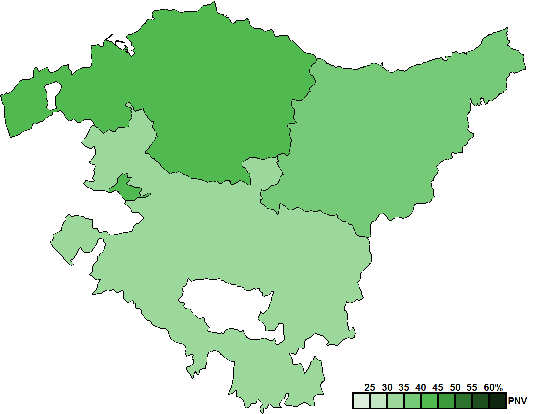 Provincial results for the 2020 Basque regional election.